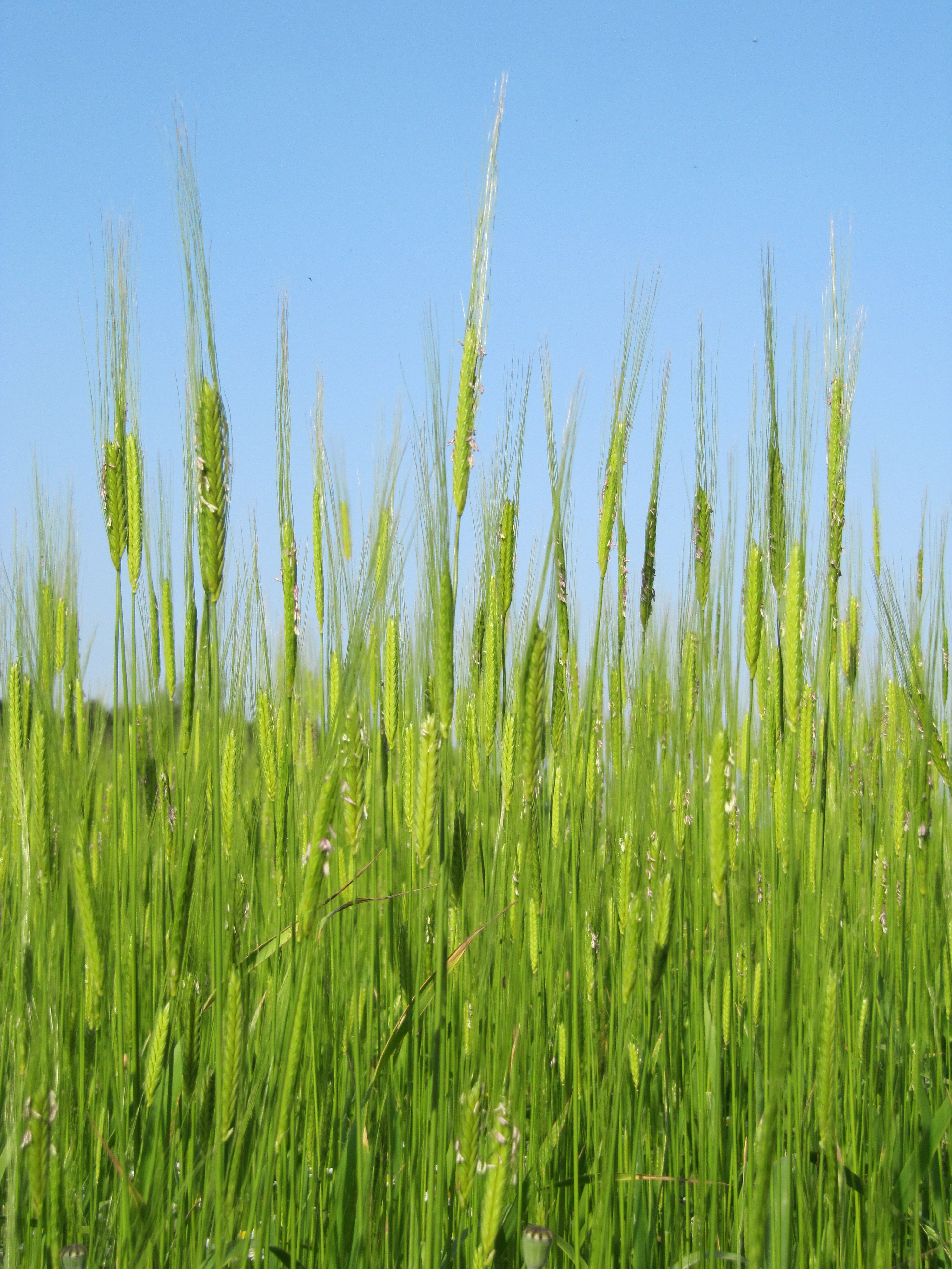 Triticum monococcum